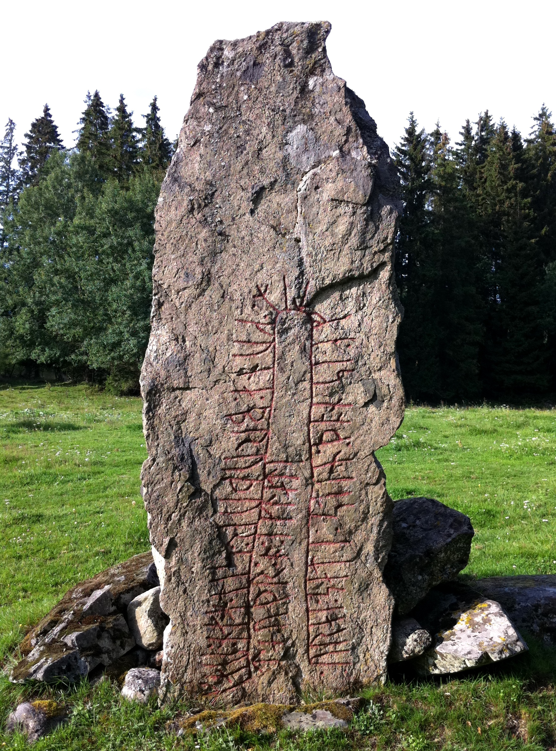 Runestone Sm 77